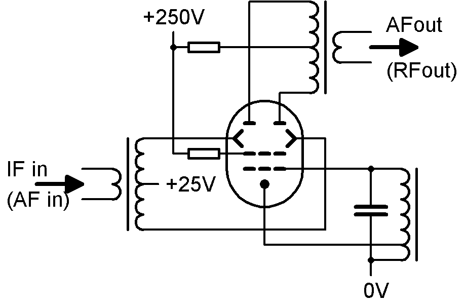 Beam deflection tubes were cathode ray tubes with an electron gun, a beam intensity control grid, a screen grid, sometimes a suppressor grid, and two electrostatic deflection electrodes on opposite sides of the electron beam, that could direct the rectangular beam to either of two anodes in the same plane. They were used as two-quadrant, single-balanced mixers or (de-)modulators. The circuit variant shown is self-oscillating.